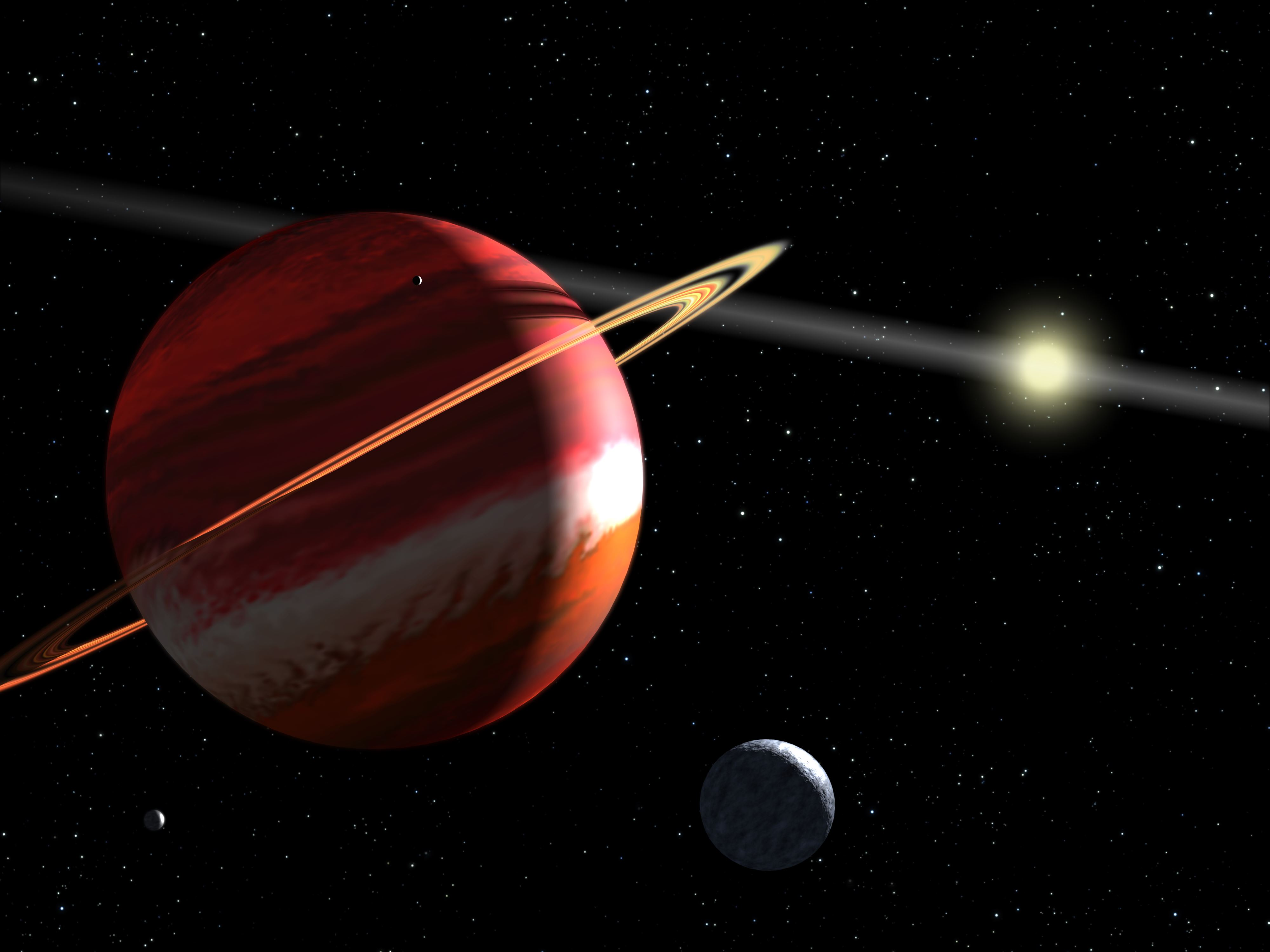 "This is an artist's concept of a Jupiter-mass planet orbiting the nearby star Epsilon Eridani. Located 10.5 light-years away, it is the closest known exoplanet to our solar system. The planet is in an elliptical orbit that carries it as close to the star as Earth is from the Sun, and as far from the star as Jupiter is from the Sun."